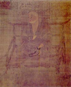 Kōbō-Daishi color on silk, owned by Kongō-ji (Kawachinagano)